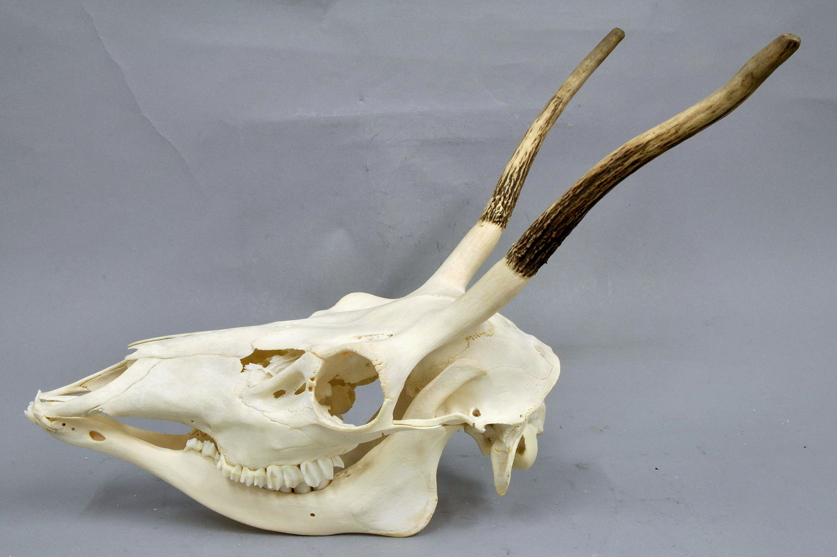 Red deer Cervus elaphus, skull, Coll. Museum Wiesbaden